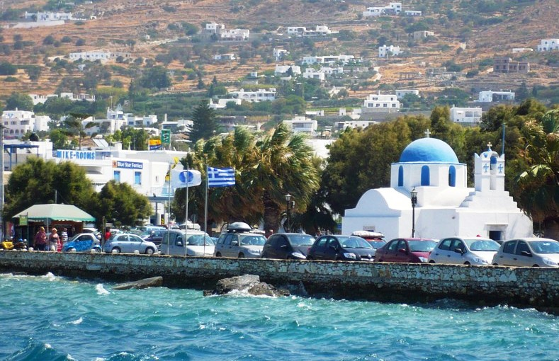 The Paros seefront in Greece.